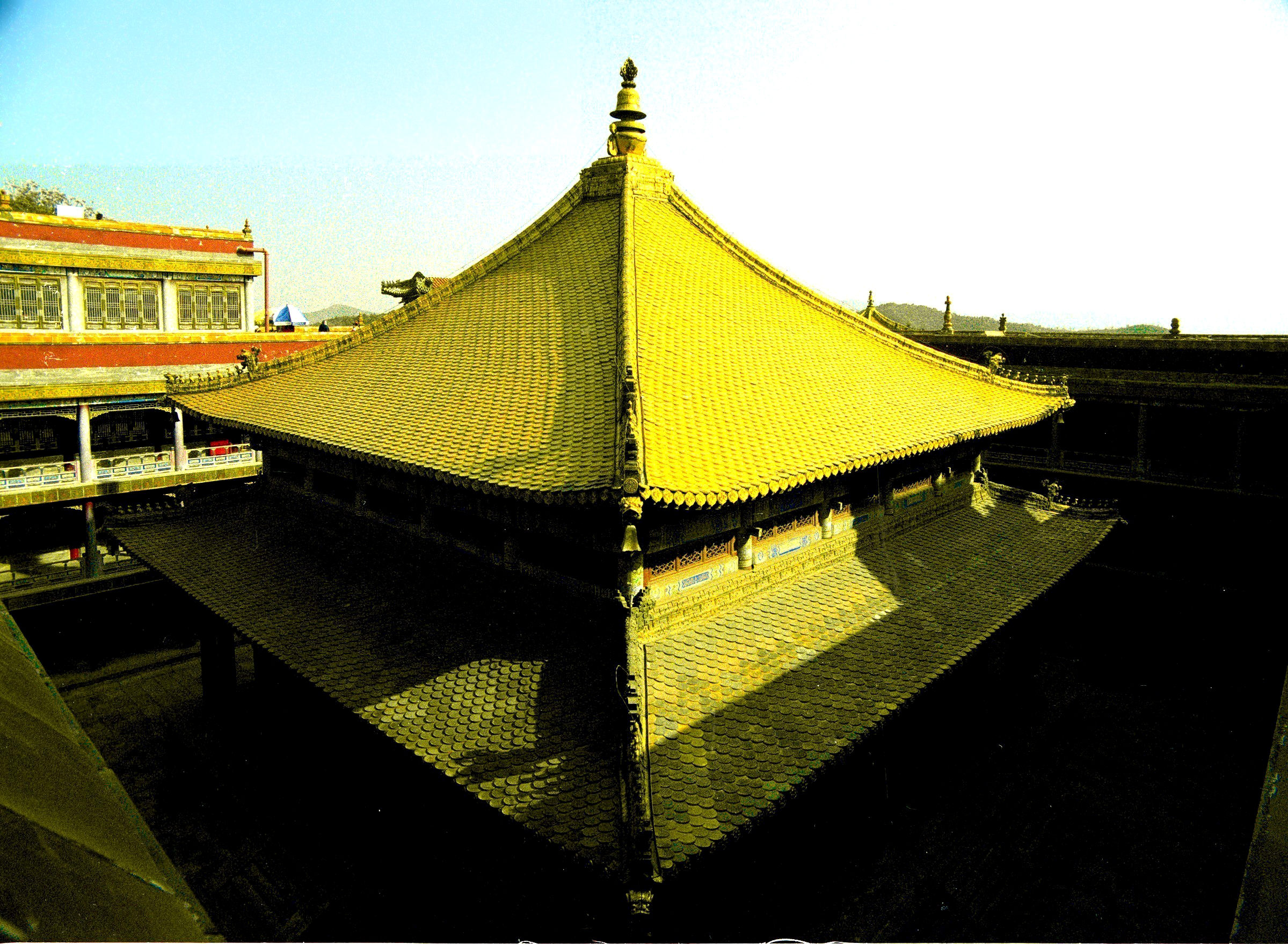 Golden roof top of Wanfaguiyi Hall, Putuo Zongcheng temple.